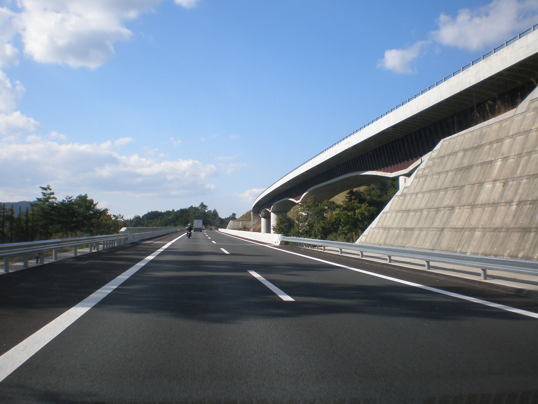 Dotachitani bridge of Shin-Meishin Expressway I took this image at Kinose Shigaraki-cho Koka City Shiga Pref., Japan